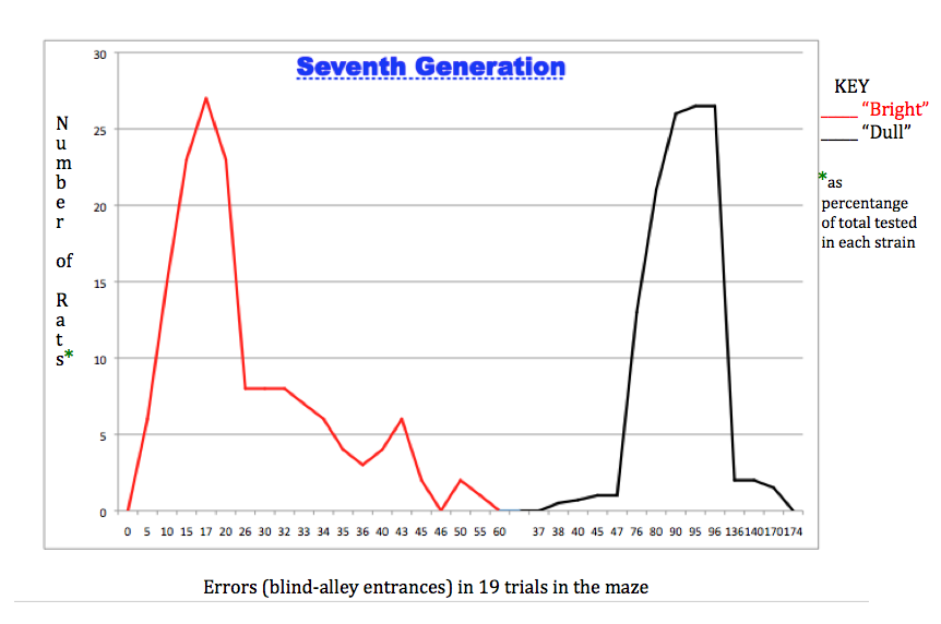 Graph Depicting the 7th Generation of Tryon's Rats and Their Maze Abilities